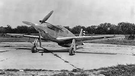 North American XP-51